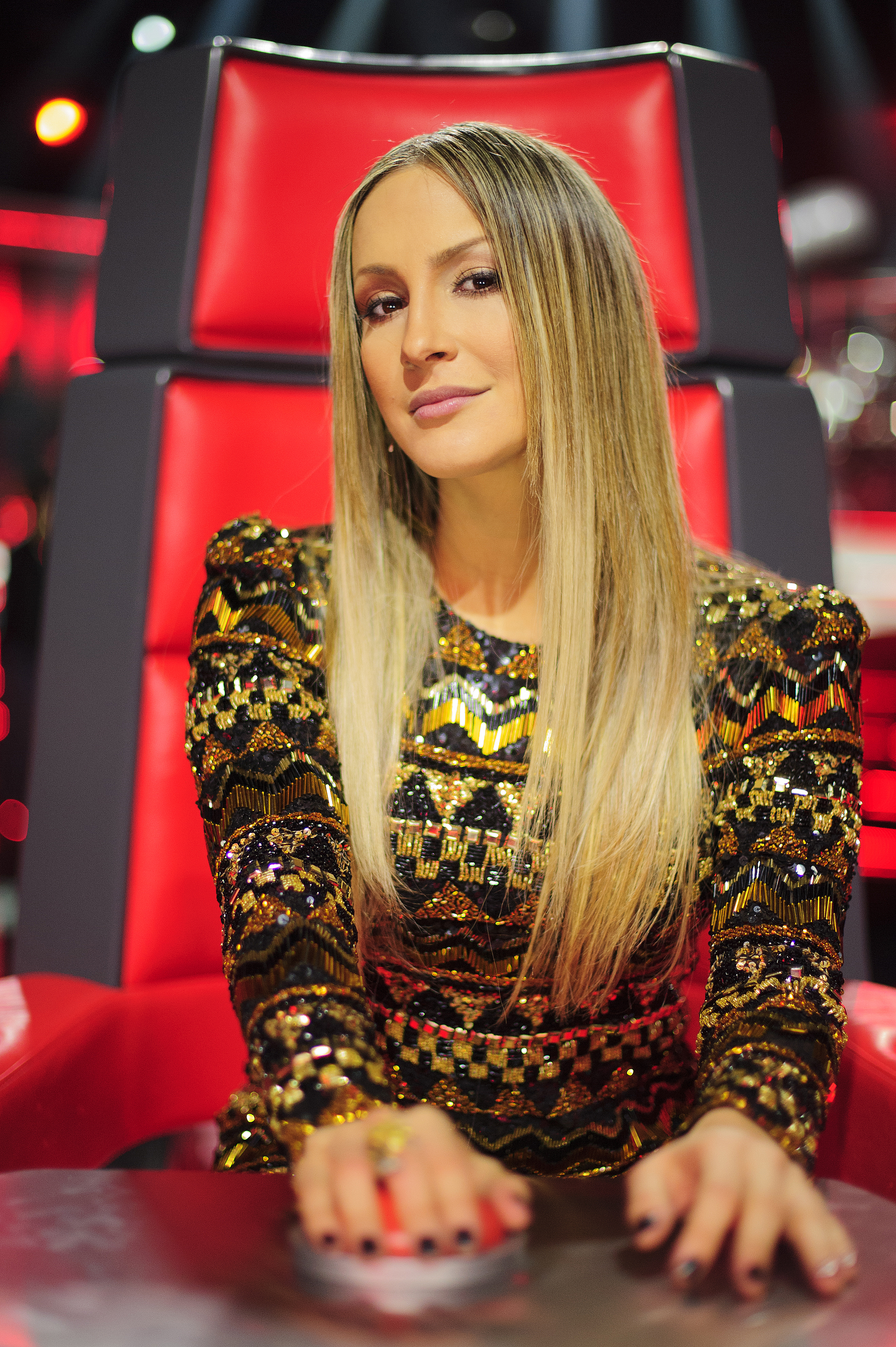 The Voice Brasil 2012